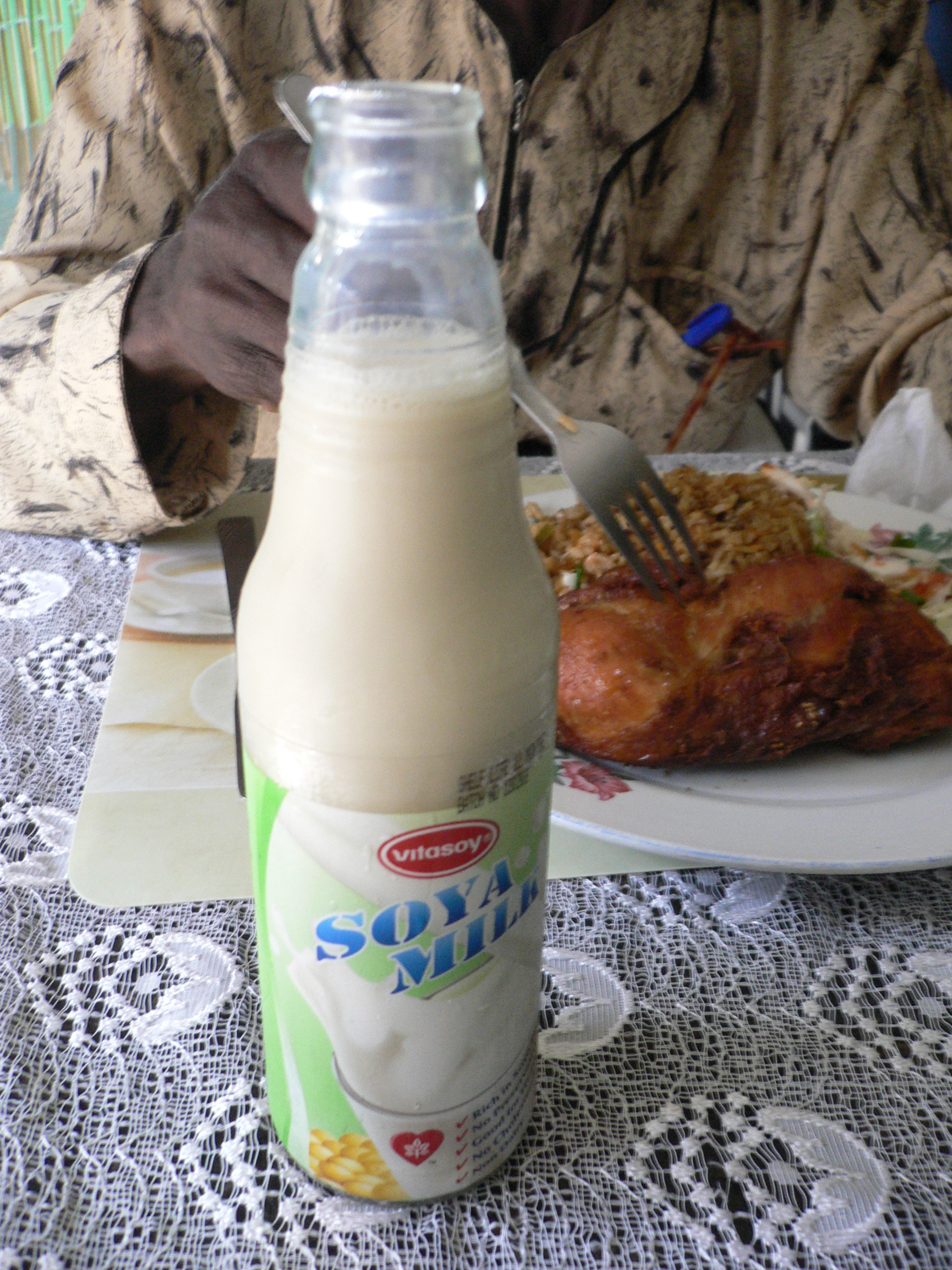 Ghanaian made Soy Milk Drink (Ghana Soya Milk), in Ghana.